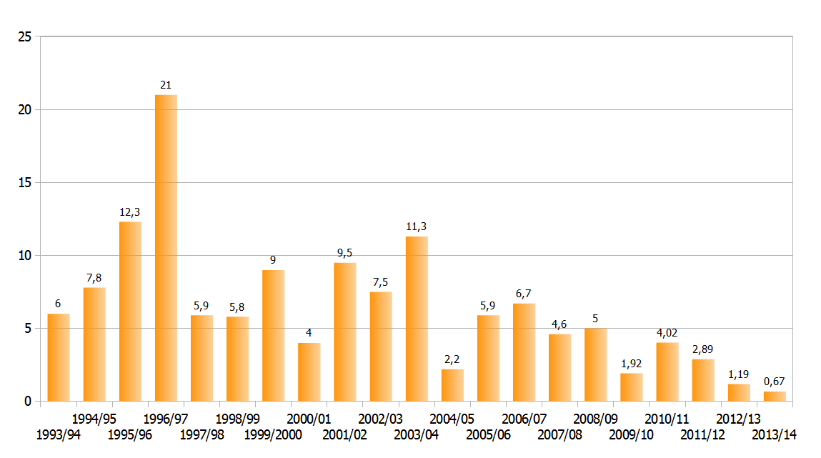 Size of overwintering area in hectar of Monarch Butterfly Danaus plexippus in Mexico 1993/94-2013/14. Based on data of Eduardo Rendón-Salinas and colleagues of World Wildlife Fund - Mexico and the Reserva de la Biosfera Marisposa Monarca (RBMM).